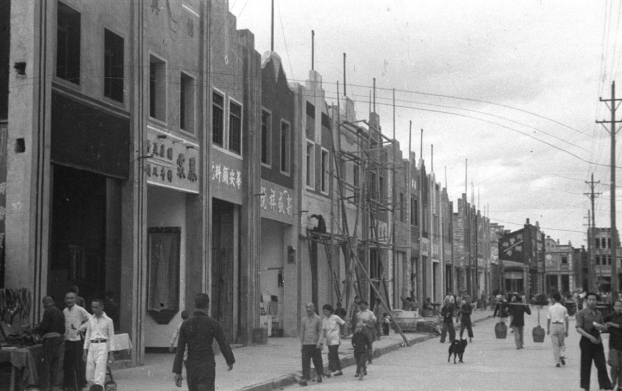 Gannan during the early 1940s. Chiang Ching-kuo was appointed as commissioner of Gannan Prefecture (贛南) between 1939 and 1945.